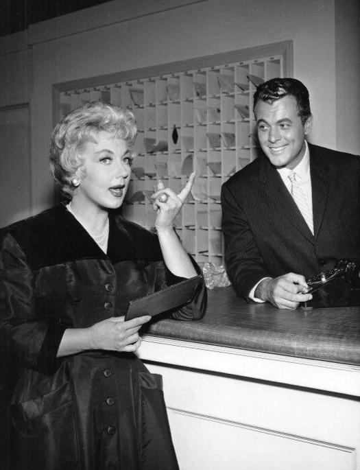 Photo of Ann Sothern and Jacques Scott as the hotel's desk clerk, from the television program The Ann Sothern Show.